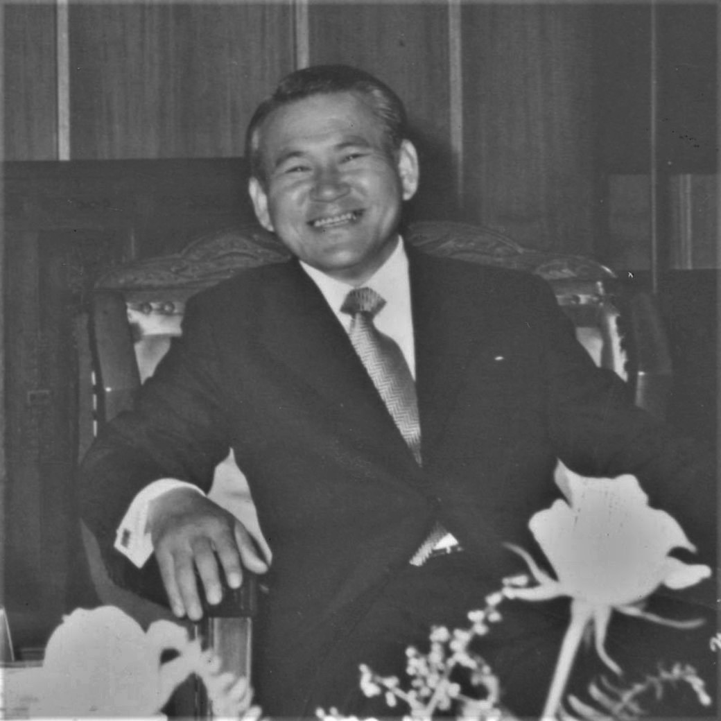 Cropped version of this image.